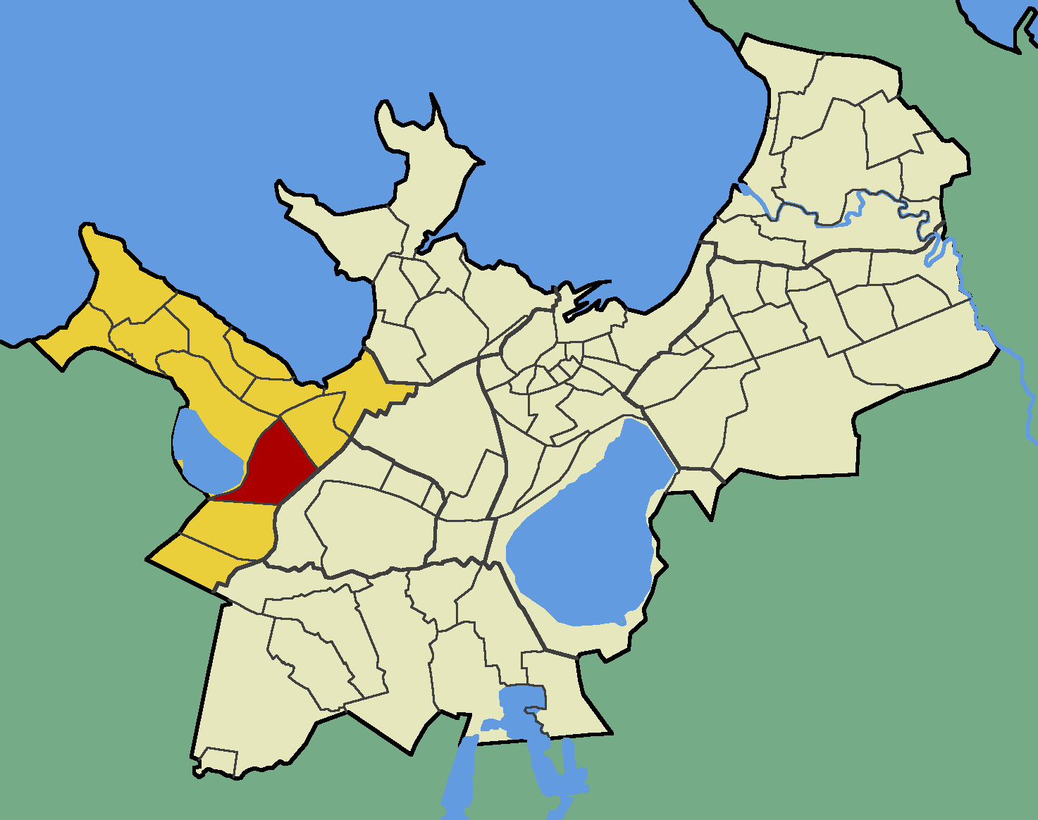 Map of Tallinn (Estonia) with borders of the quarters, Haabersti district and Väike-Õismäe quarter emphasised